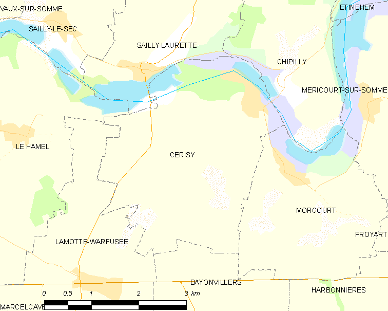 Map of French municipality Cerisy